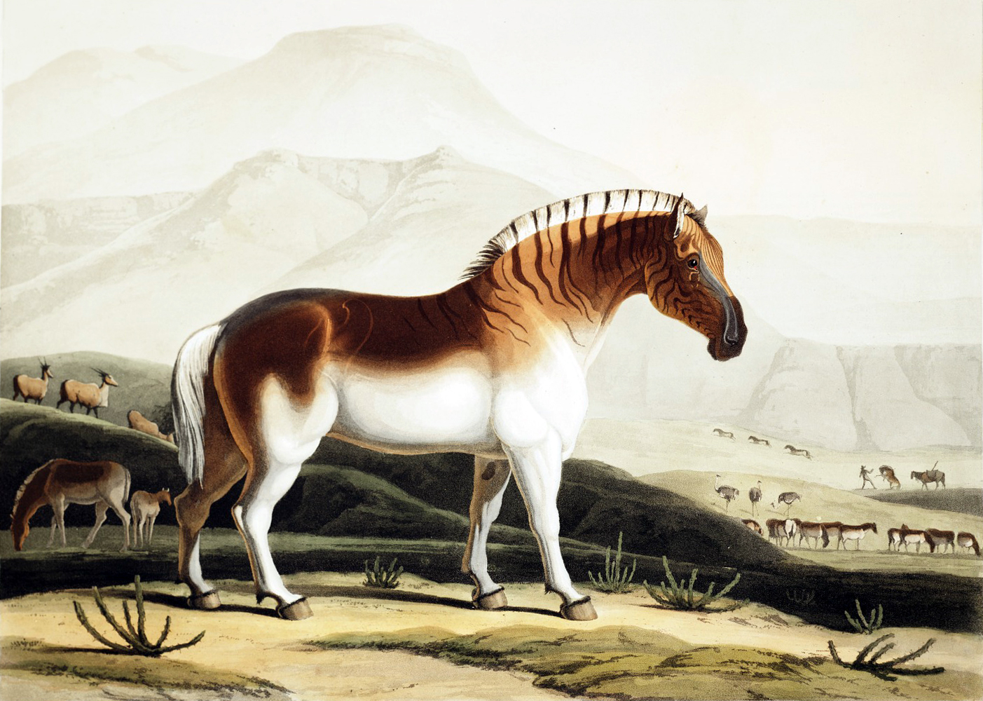 The Quahkah (Quagga) Aquatinta by Samuel Daniell (1775-1811) from the Series African scenery and animals.